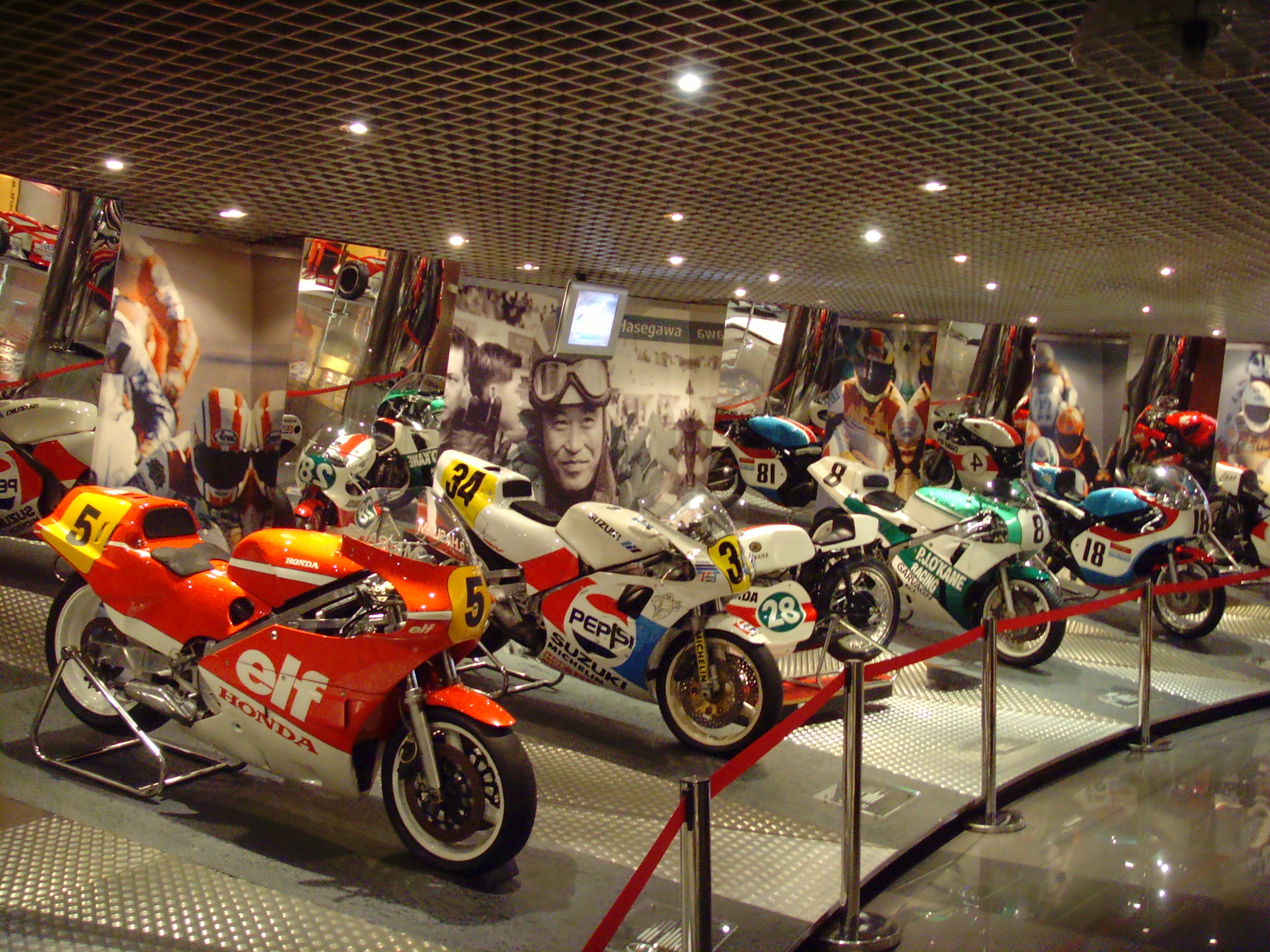 Racing bikes on display at Macau Grand Prix Museum, with Ron Haslam's Honda and Kevin Schwantz's Suzuki on foreground.